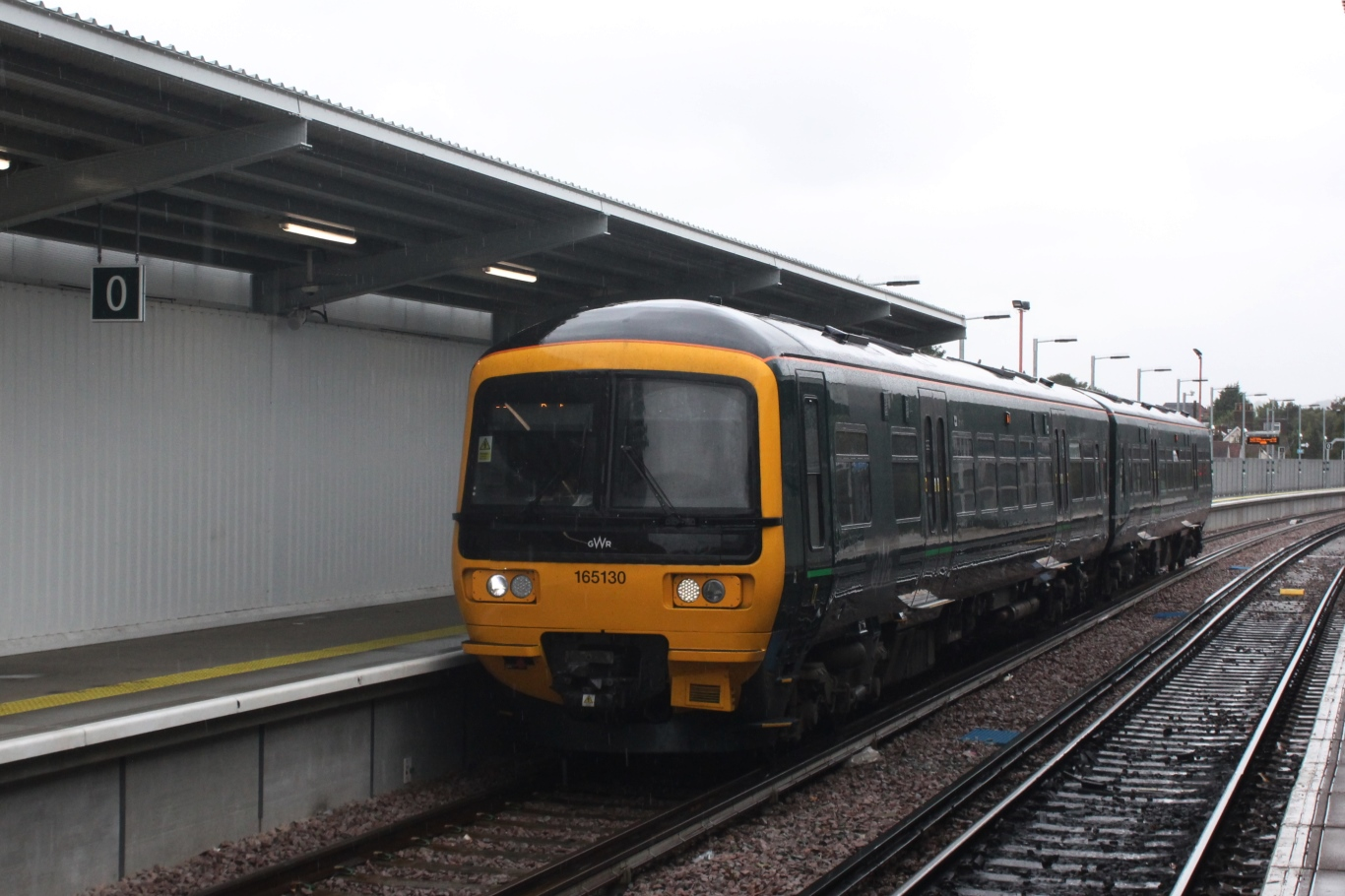 A damp Sunday finds Great Western Railway's 165130 in the new platform 0 at Redhill with a stoping service to Reading.